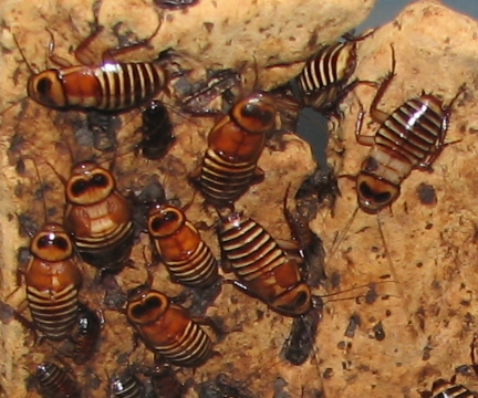 Zebra Bug (Eurycotis decipiens) This is a species of Cockroach